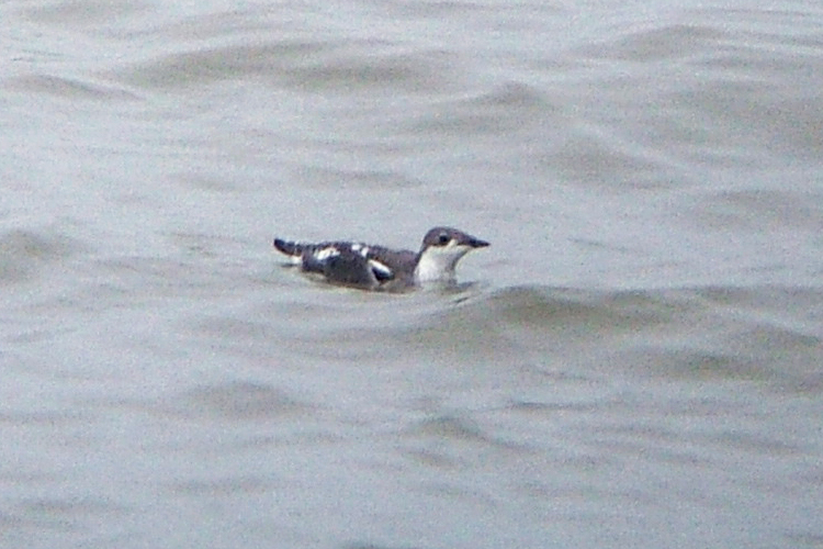 Brachyramphus perdix, winter plumage, Dawlish, Devon, UK, 14 November 2006 (first UK record)